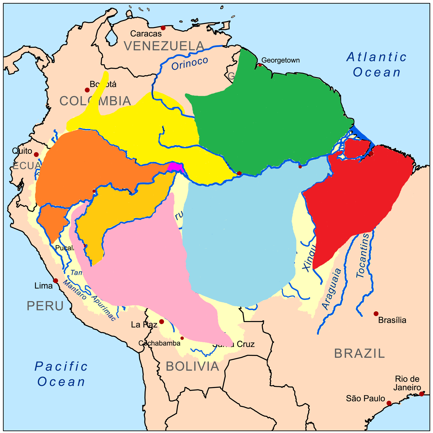 Distribution Saimiri